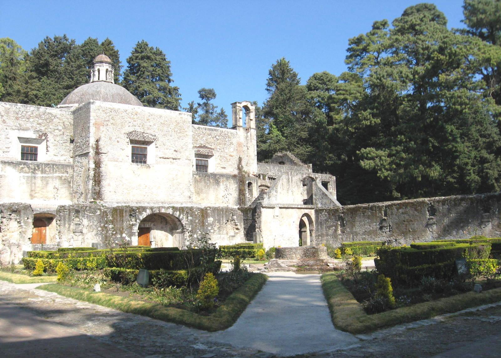 View of main garden and eastern side of chapel of the Convent of Desierto de los Leones. In Desierto de los Leones National Park, in western México, D. F..